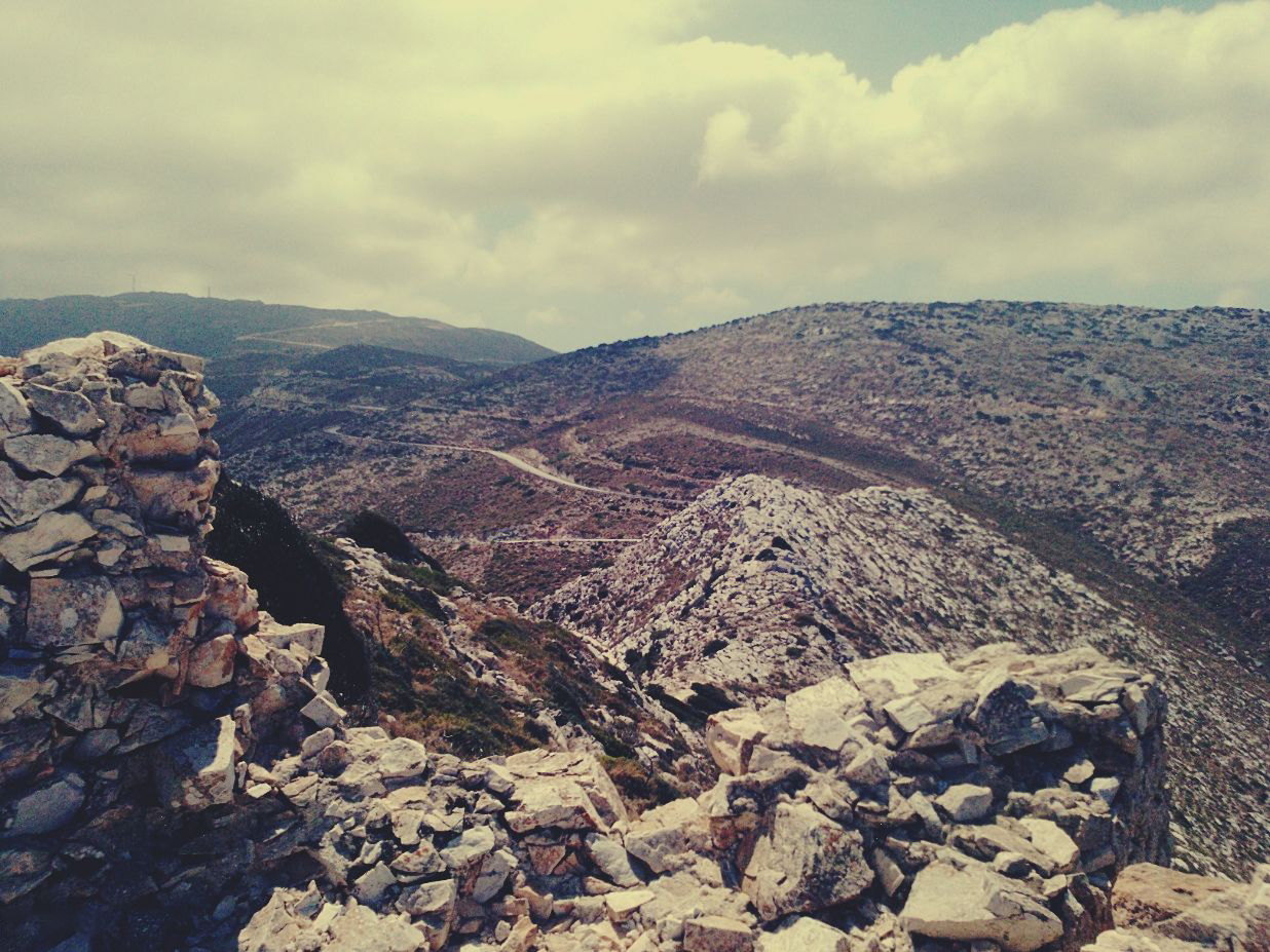 View from Paleokastro, Ios Island, Cyclades, Greece. View to the southwest of the island.